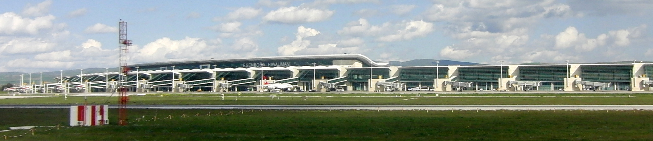 Esenboğa International Airport in Ankara, Turkey.